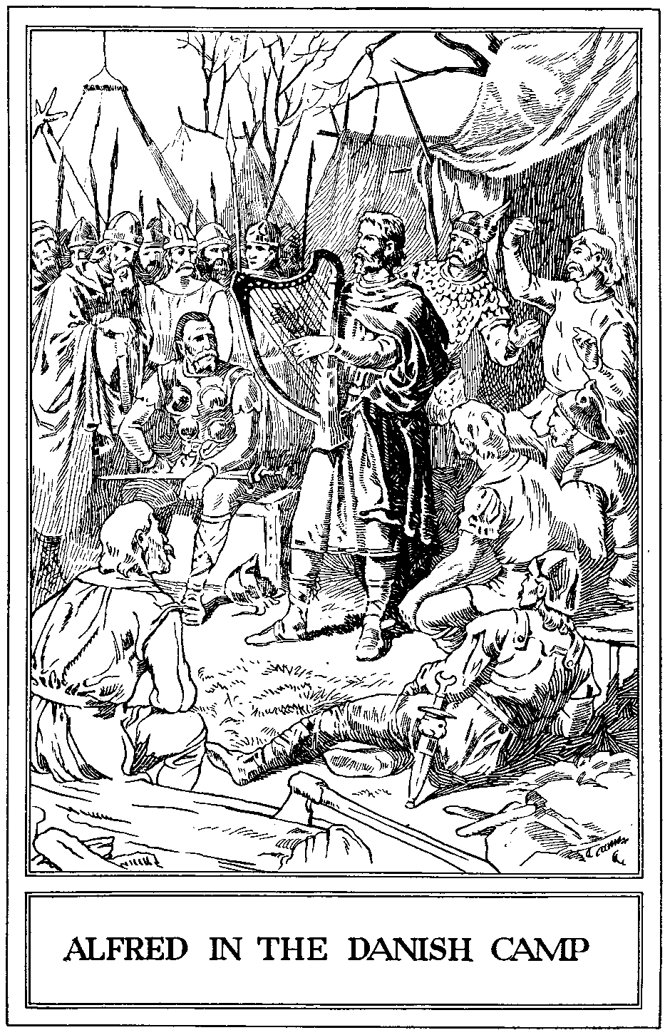 The Saxon king Alfred the great penetrates the Danish camp disguised as a wandering minstrel, in order to get intelligence.